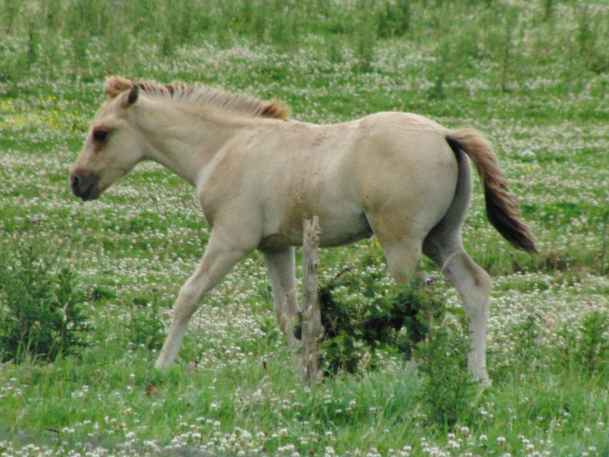 Henson foal, Haras Henson de Saint-Jean, Rue, Somme, France